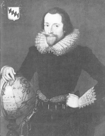 Portrait of English writer, poet, courtier and explorer Sir Walter Raleigh (c. 1552 – 29 October 1618). Raleigh points to the Arctic region of a globe, a reference to the many Arctic voyages made by the English in search of a northwest passage to the Orient, and the privilege granted by Elizabeth I to Raleigh to make northwest discoveries and exploit land in North America.